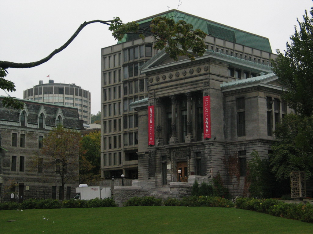 The museum of Red Path at McGill University